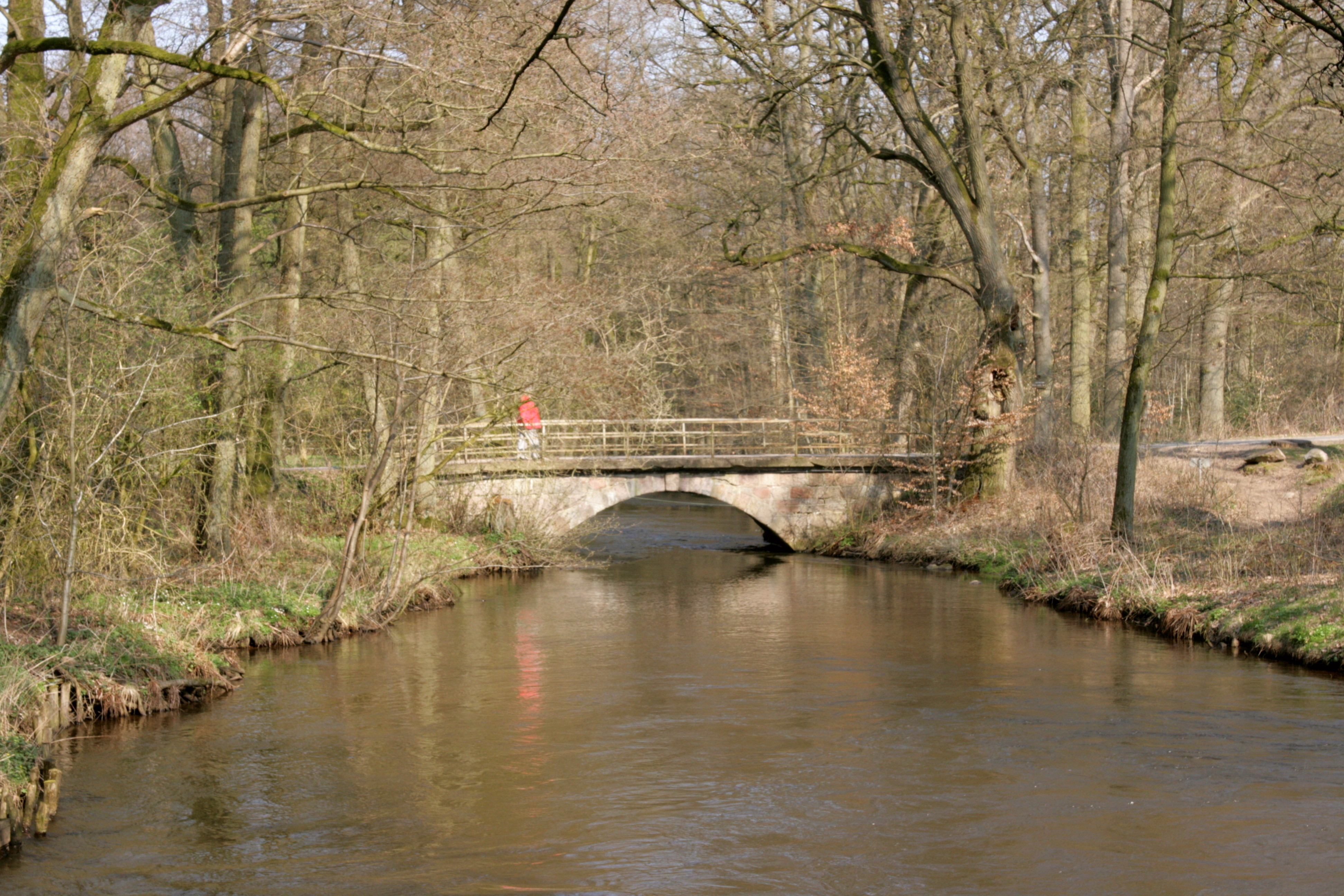 Luhe bei Wohlenbüttel in Oldendorf (Luhe)